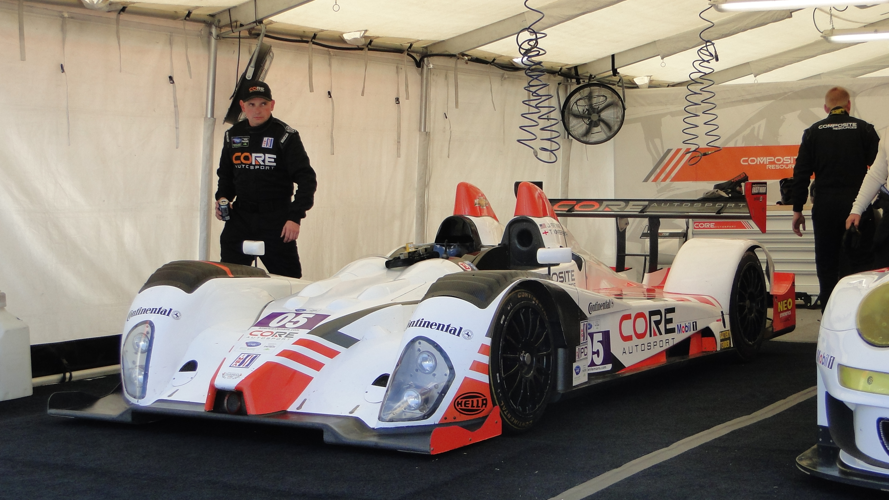 Oreca FLM09 of CORE Autosport at Virginia International Raceway during the 2013 Oak Tree Grand Prix.